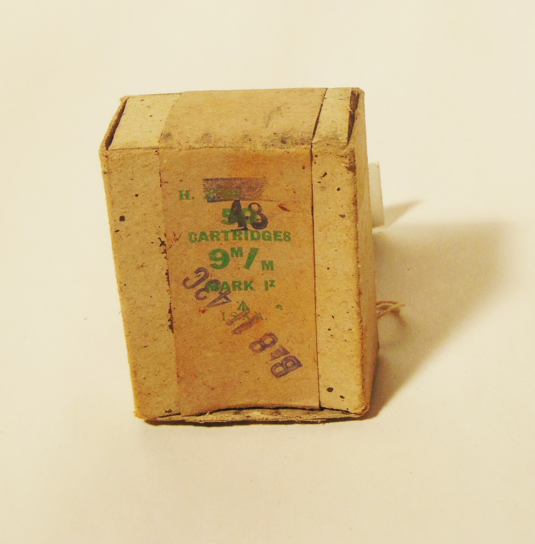 Carton box, British, with overprint: “48 Cartridges 9 mm Mark I z”. Photographed in the collection of the National Liberation Museum 1944-1945, the Netherlands, archive number 063.007.